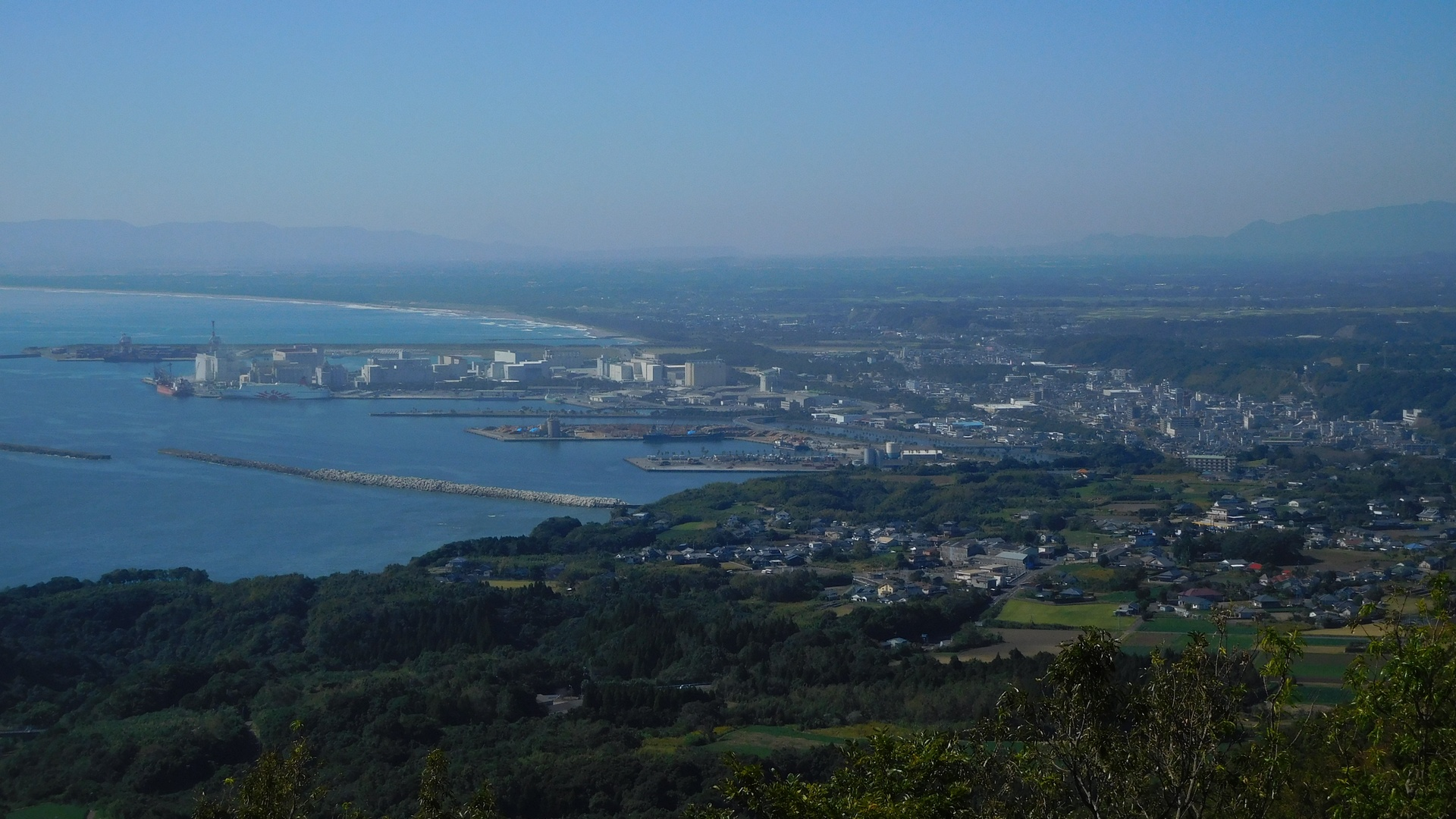 Port of Shibushi in Shibushi City, Kagoshima Prefecture, Japan, seen from Mount Jin (Jingaku)